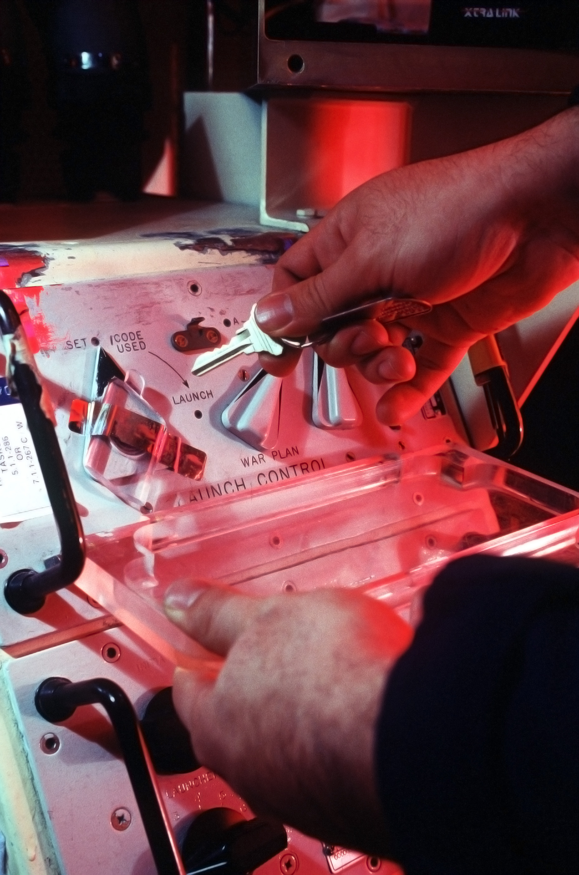 Original caption: In a simulation of a Peacekeeper Missile Launch, two Launch Keys similar to the one pictured here, are inserted into the Launch Control Panel by both Crew Commander and Deputy Crew Commander which must be turned simultaneously to activate the launch. (Released to Public) (FRANCIS E. WARREN AIR FORCE BASE, WYOMING (WY) UNITED STATES OF AMERICA (USA))